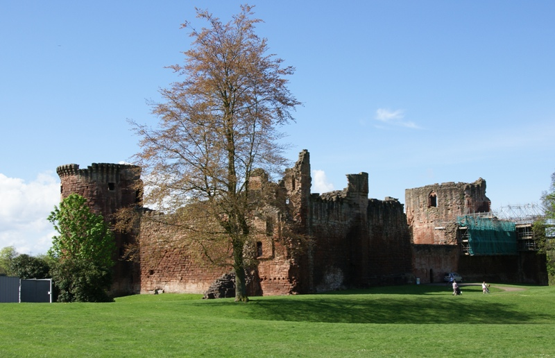 Bothwell Castle, South Lanarkshire, Scotland